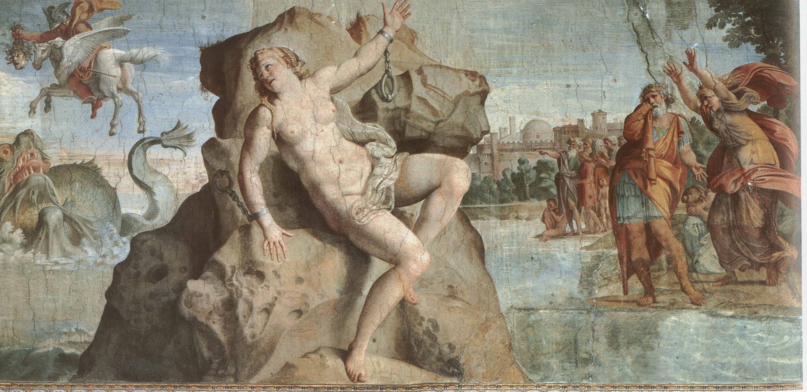 Perseus_and_Andromeda_-_Annibale_Carracci_and_Domenichino_-_1597_-_Farnese_Gallery,_Rome